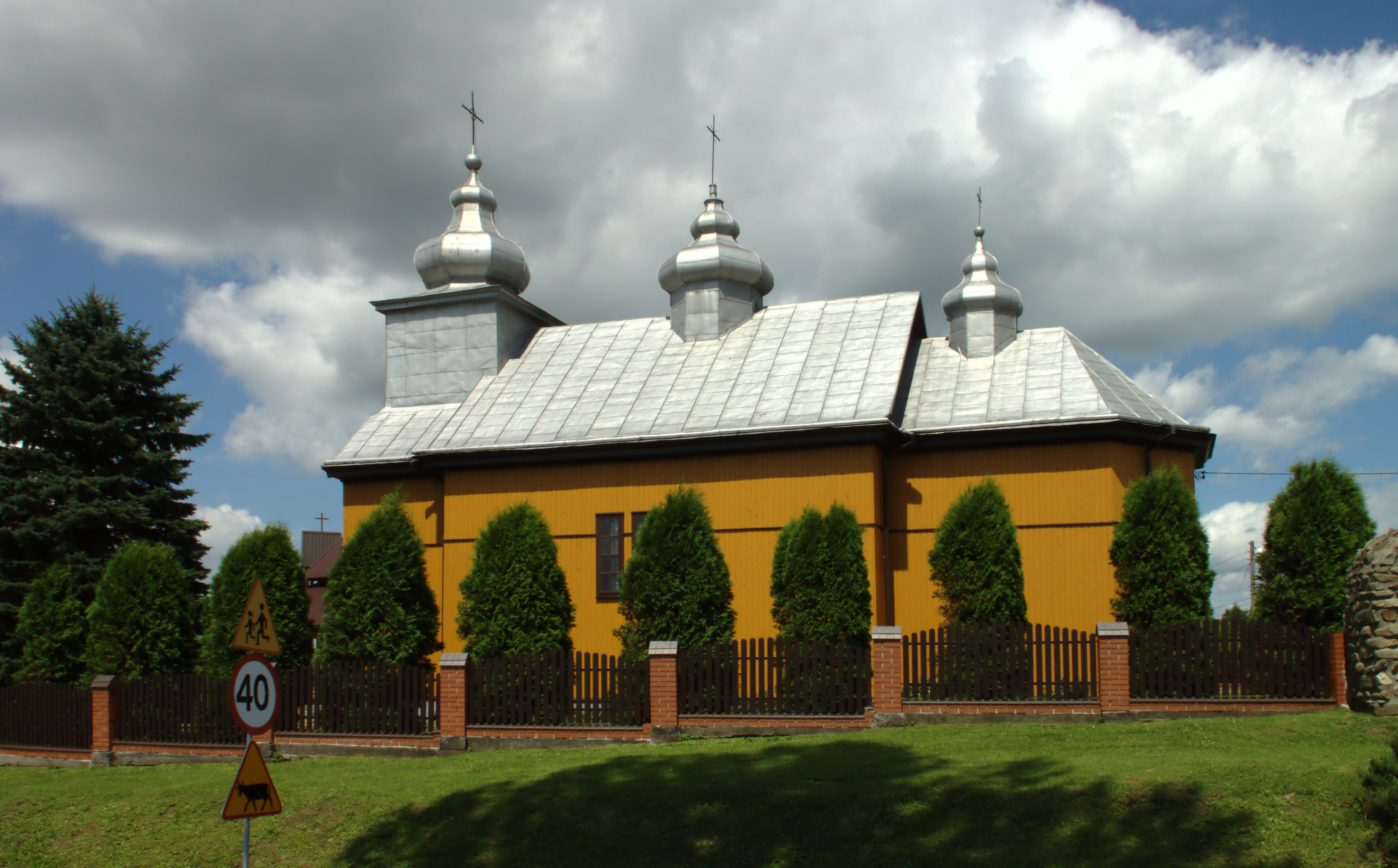 Originally a greek catholic church in the town of Wróblik Szlachecki, Podkarpackie voivodeship, Poland This photo of Subcarpathian Voivodeship was taken during Wikiekspedycja 2011 set up by Wikimedia Polska Association.You can see all photographs in category Wikiekspedycja 2011. The making of this document was supported by Wikimedia Polska.